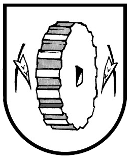 Coat of arms of Niederbösa in Germany.